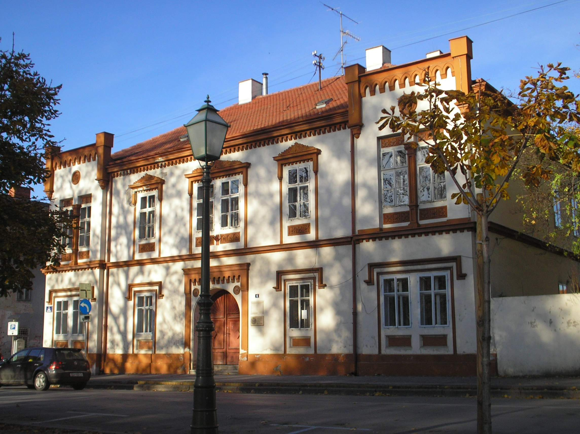 Building in Bjelovar, Croatia